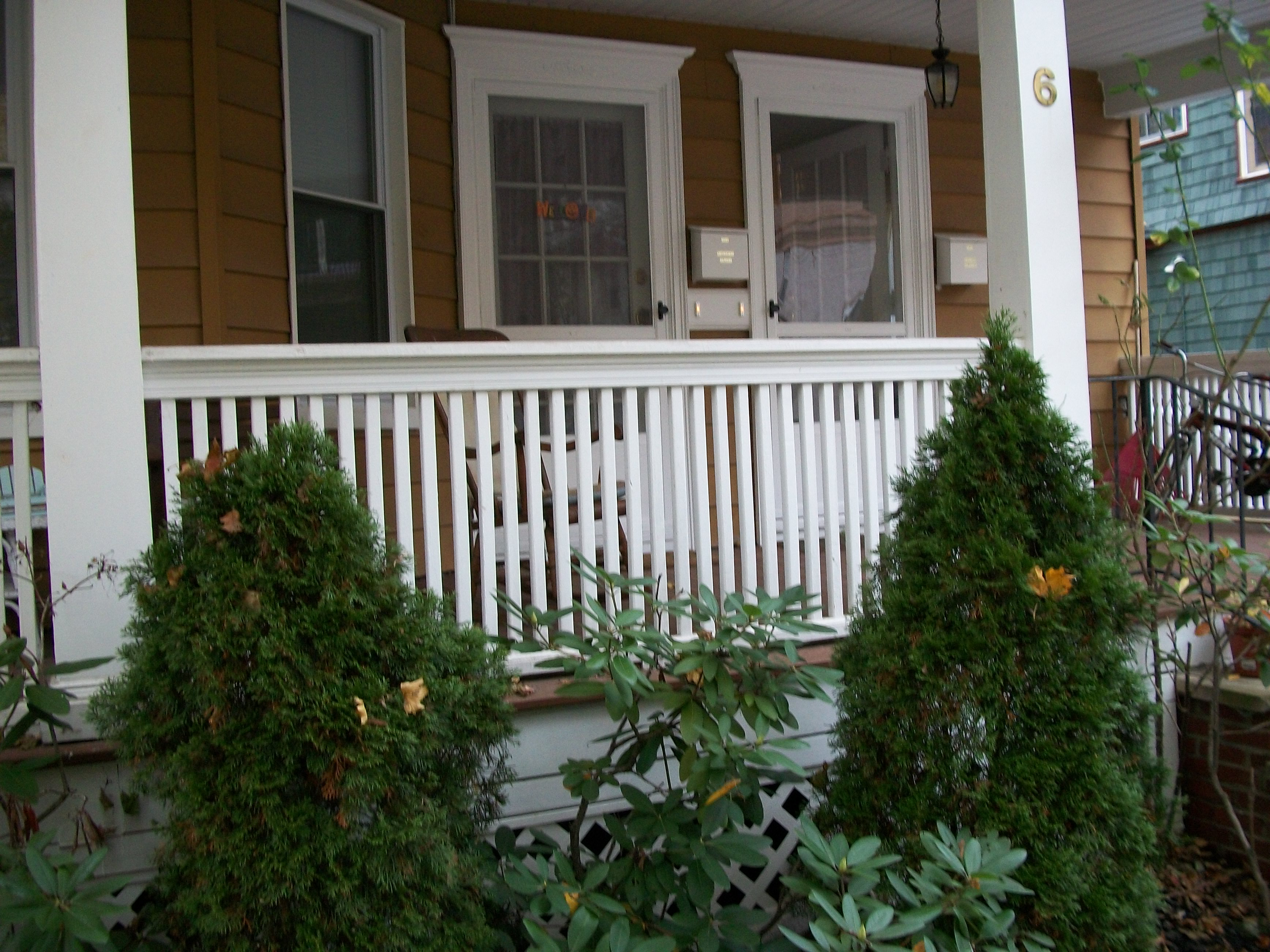 Replacing a New Jersey porch is a lot of work. Get help from city inspectors, carpenters, home centers. This entire porch was rebuilt from the tops of the columns, and down, with a new floor, new railings, new columns, and strong concrete cylindrical pilings (not shown).